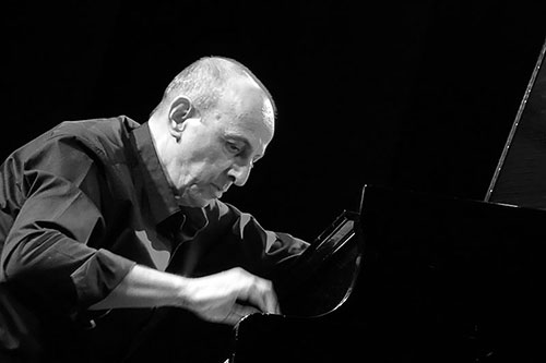 Agusti Fernandez playing in Aahus Denmark 2015